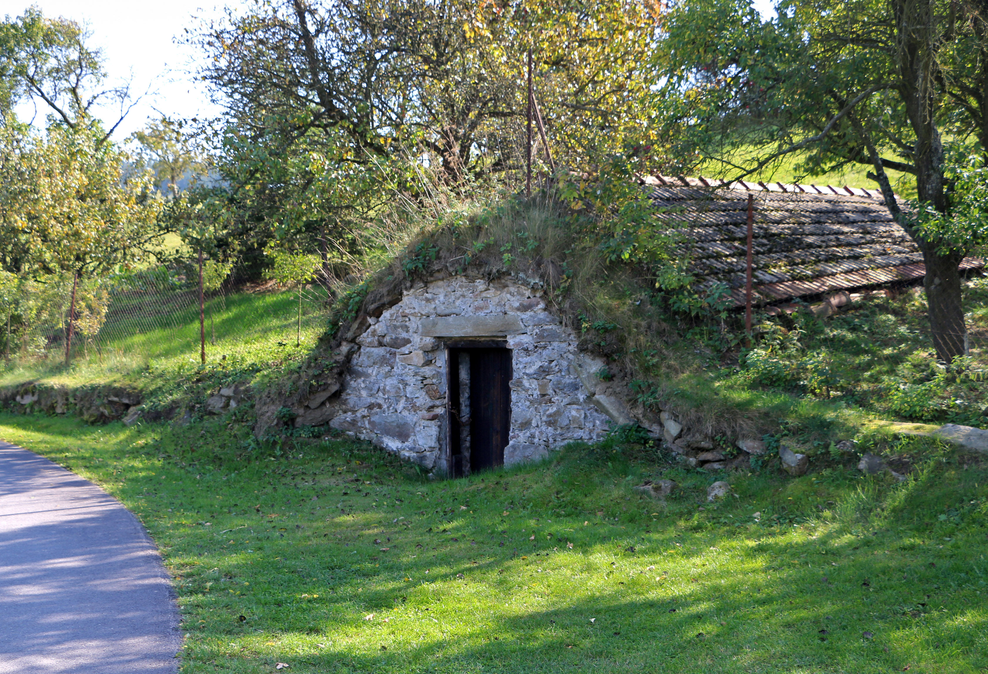 Cellar in Nová Ves, part of Batelov, Czech Republic.